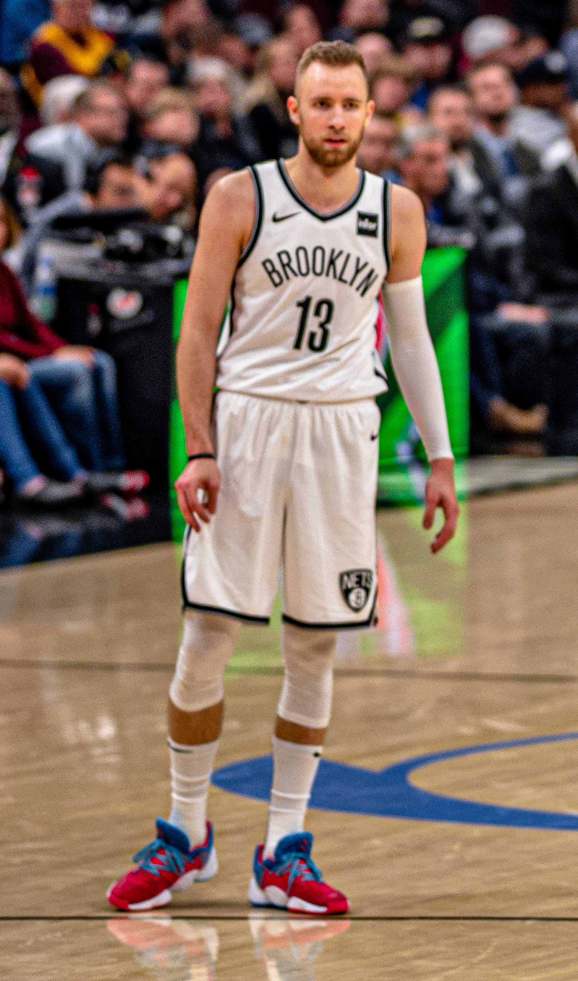 Tristan Thompson